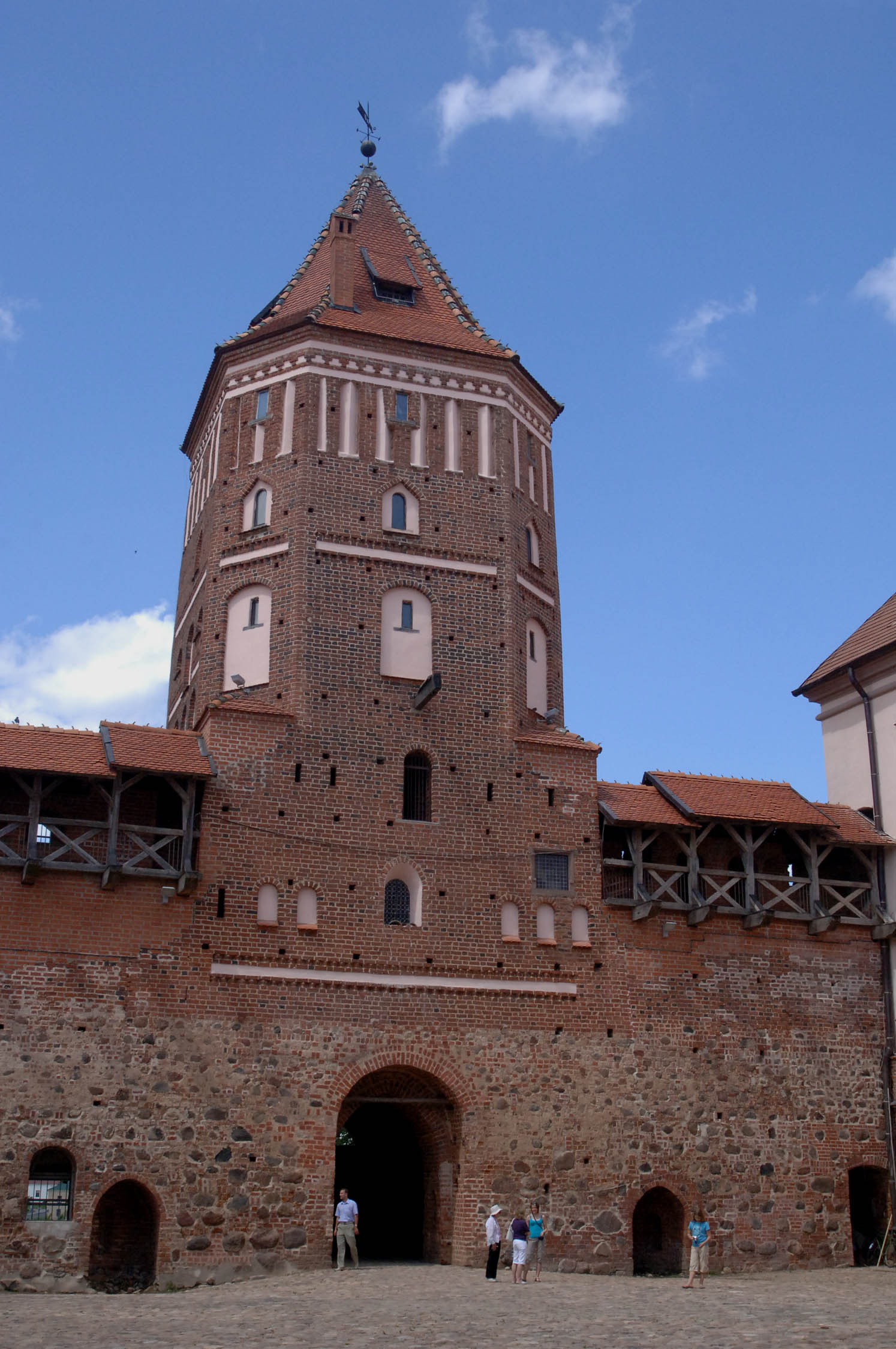 VIEW INSIDE IN THE COURTYARD OF MIR CASTLE